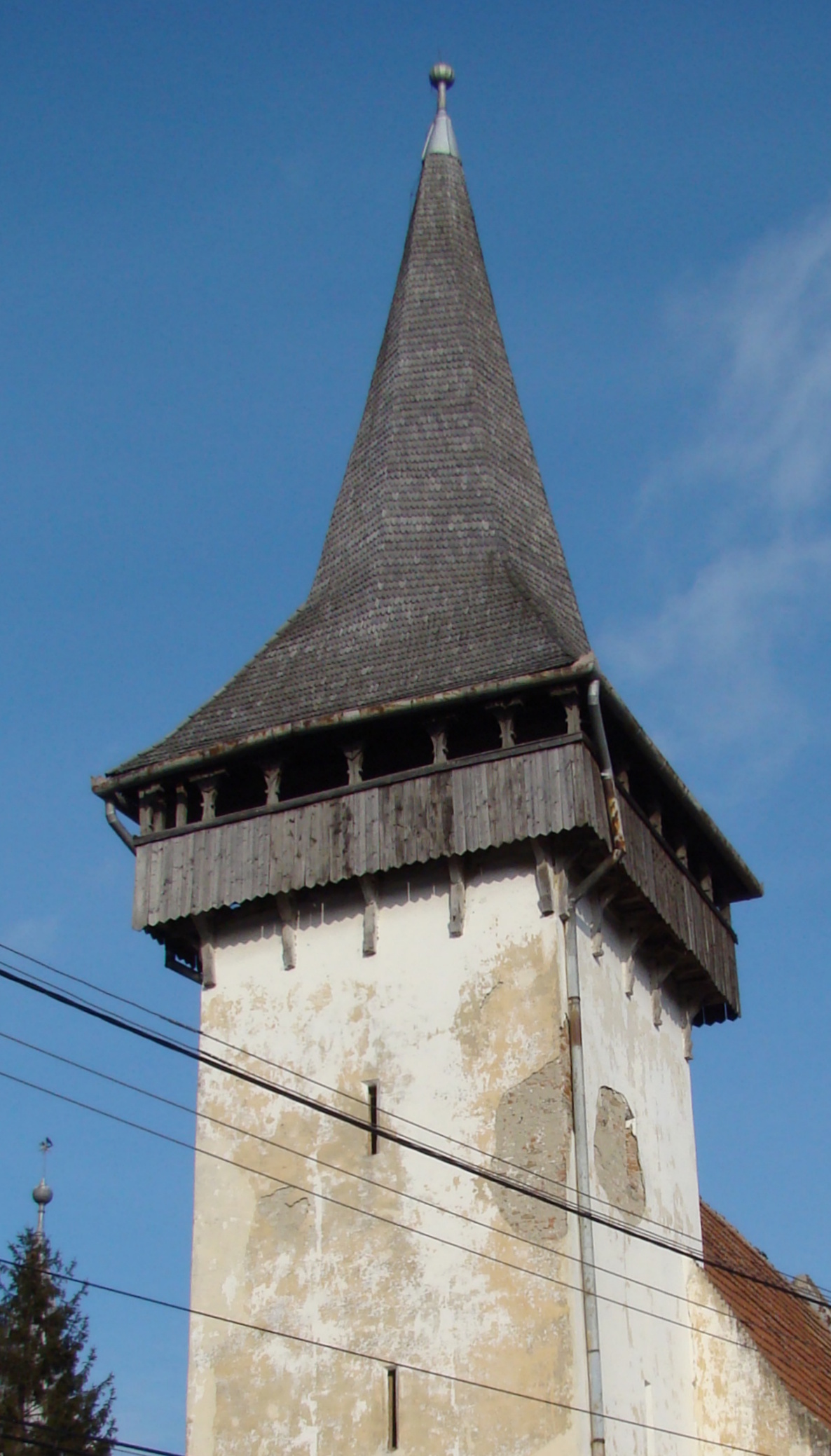 Adămuş, Mureş county, Romania